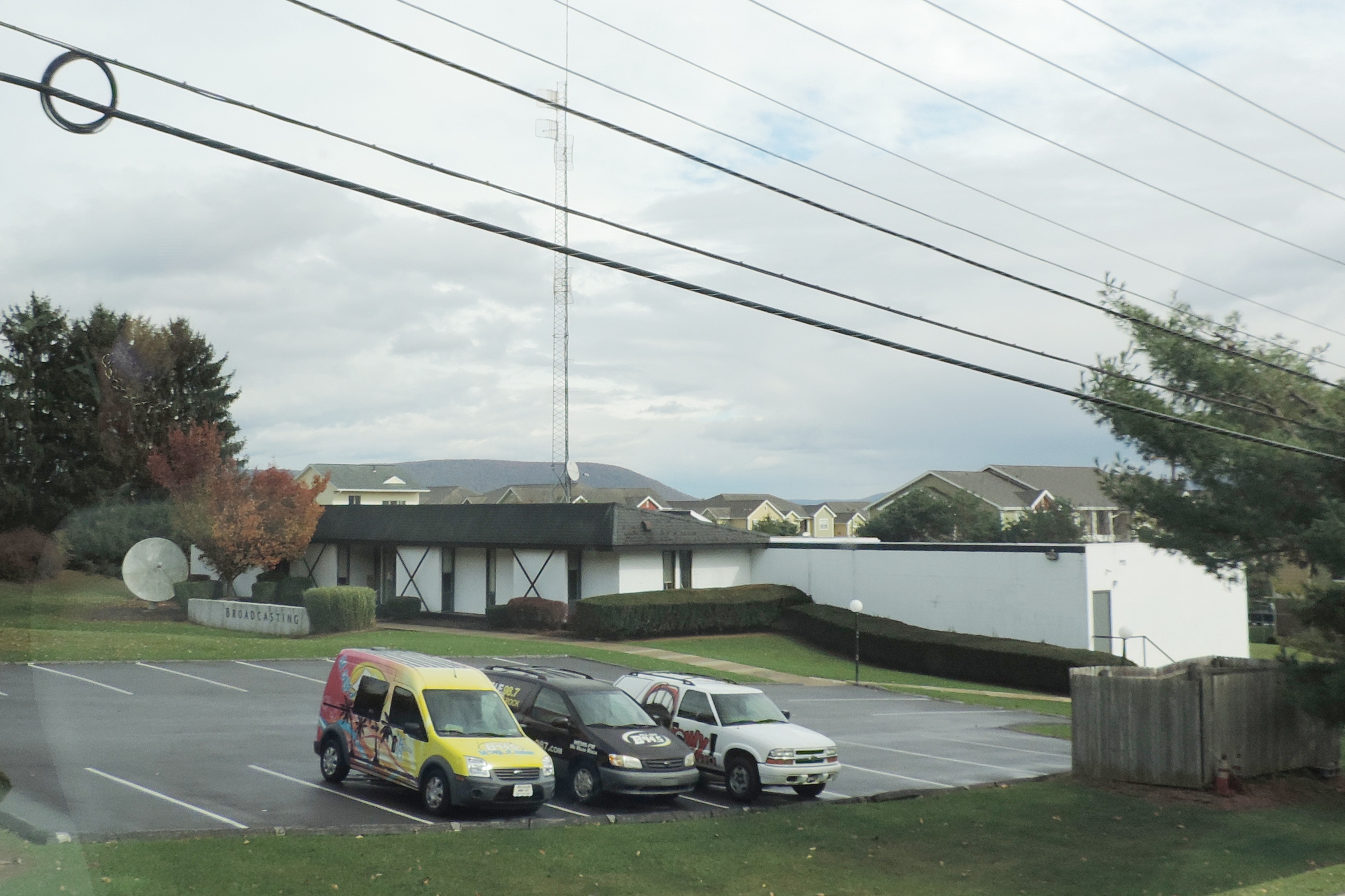 Looking east at radio station from bus on Waddle Rd on a cloudy day.